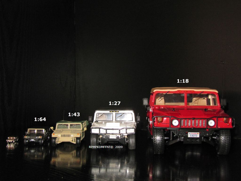 A collection of diecast HUMMER models in varying scales